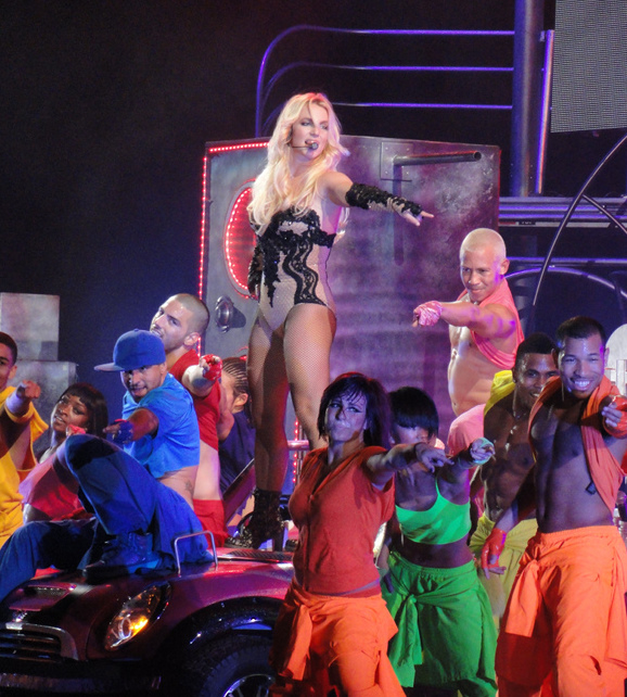 Spears